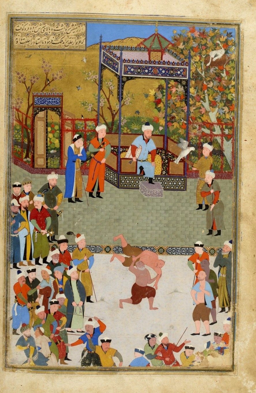 Mahmud Muzahhib. THE WRESTLING MASTER IS CHALLENGED BY HIS PUPIL. Gulistan Saadi, 1543 BNF